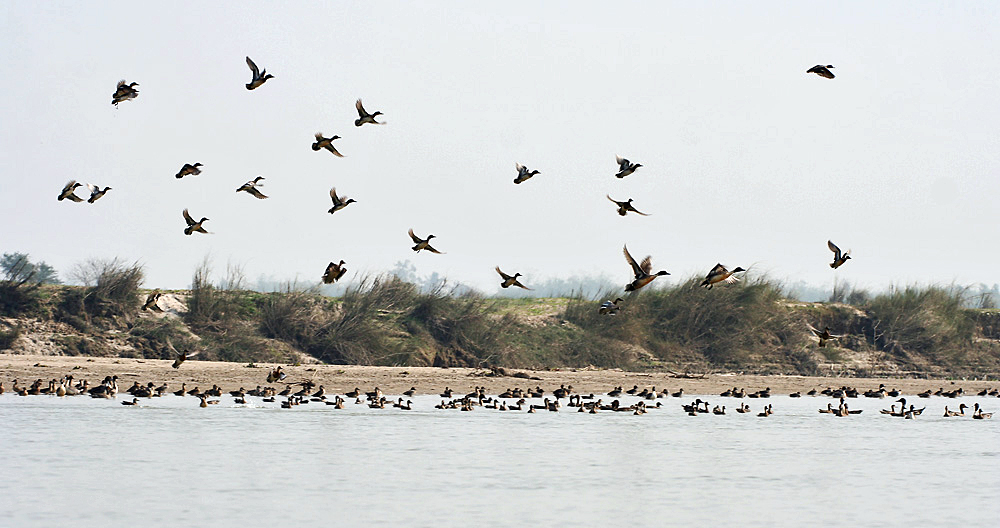 Northern Pintail (Anas acuta) at Purbasthali in Burdwan District of West Bengal, India.